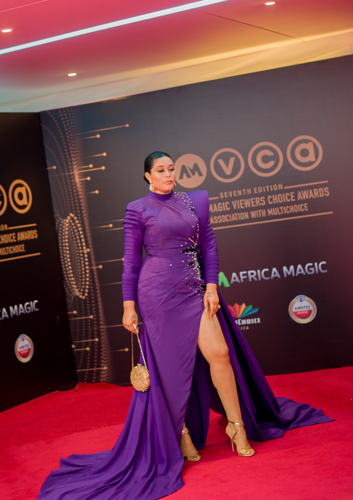 Adunni Ade at the 2020 AMVCA